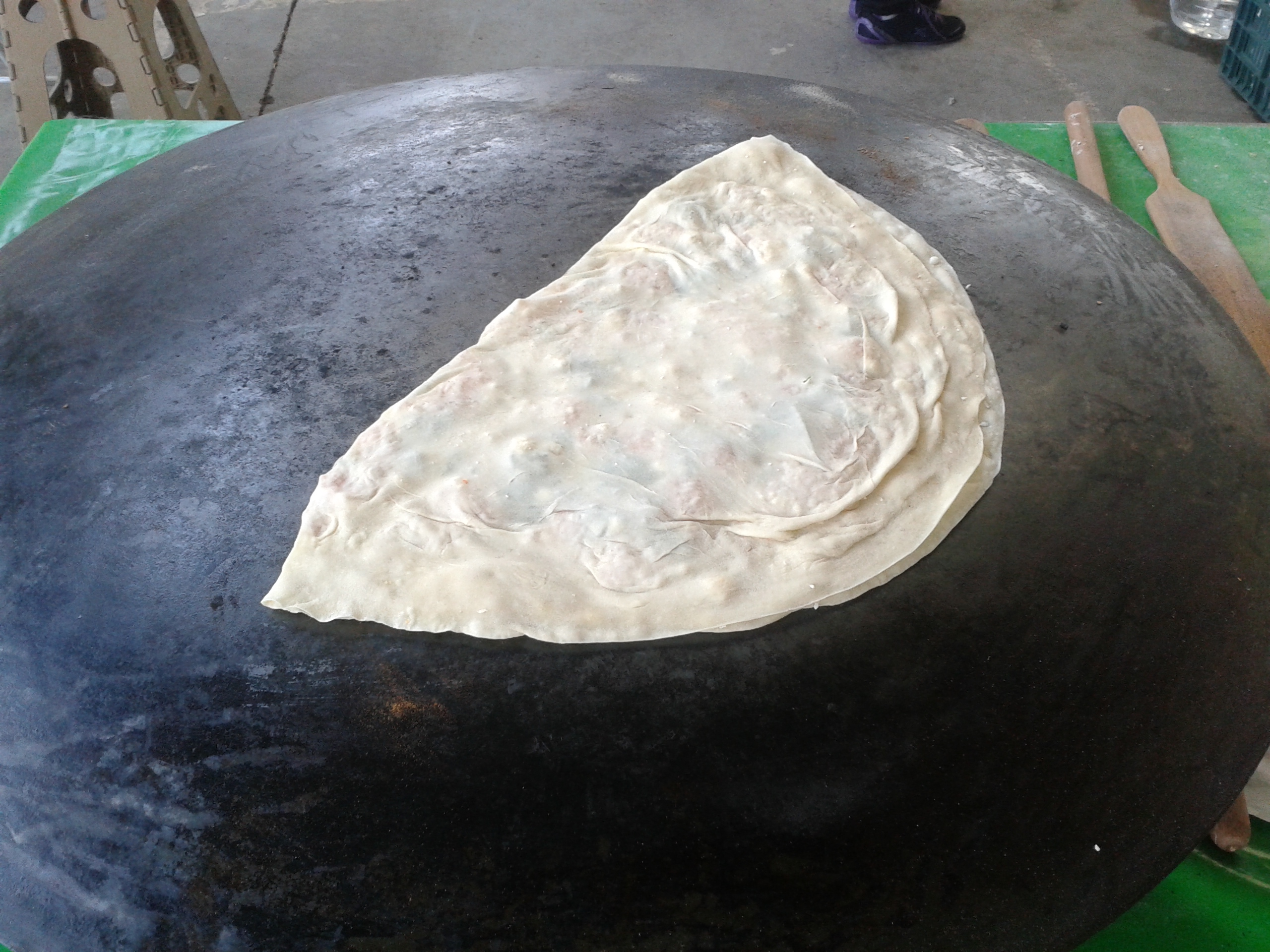 Gözleme being cooked in Ankara.